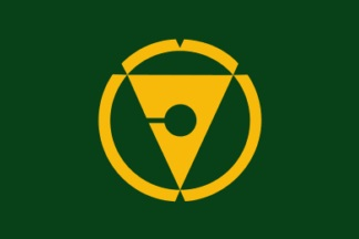 Flag of Matsuno Ehime